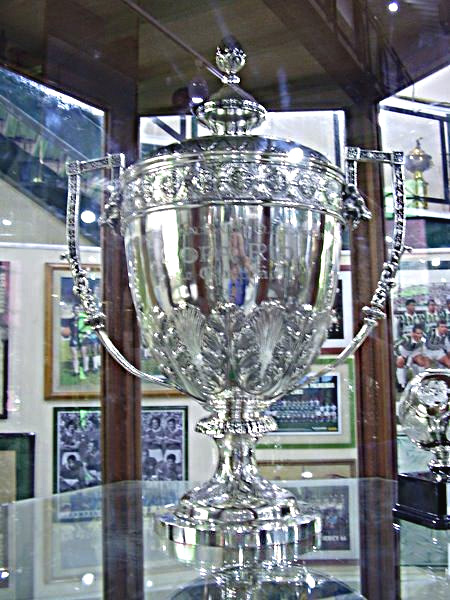 Campeão Mundial Interclubes: 1951 - Intercontinental Club Cup